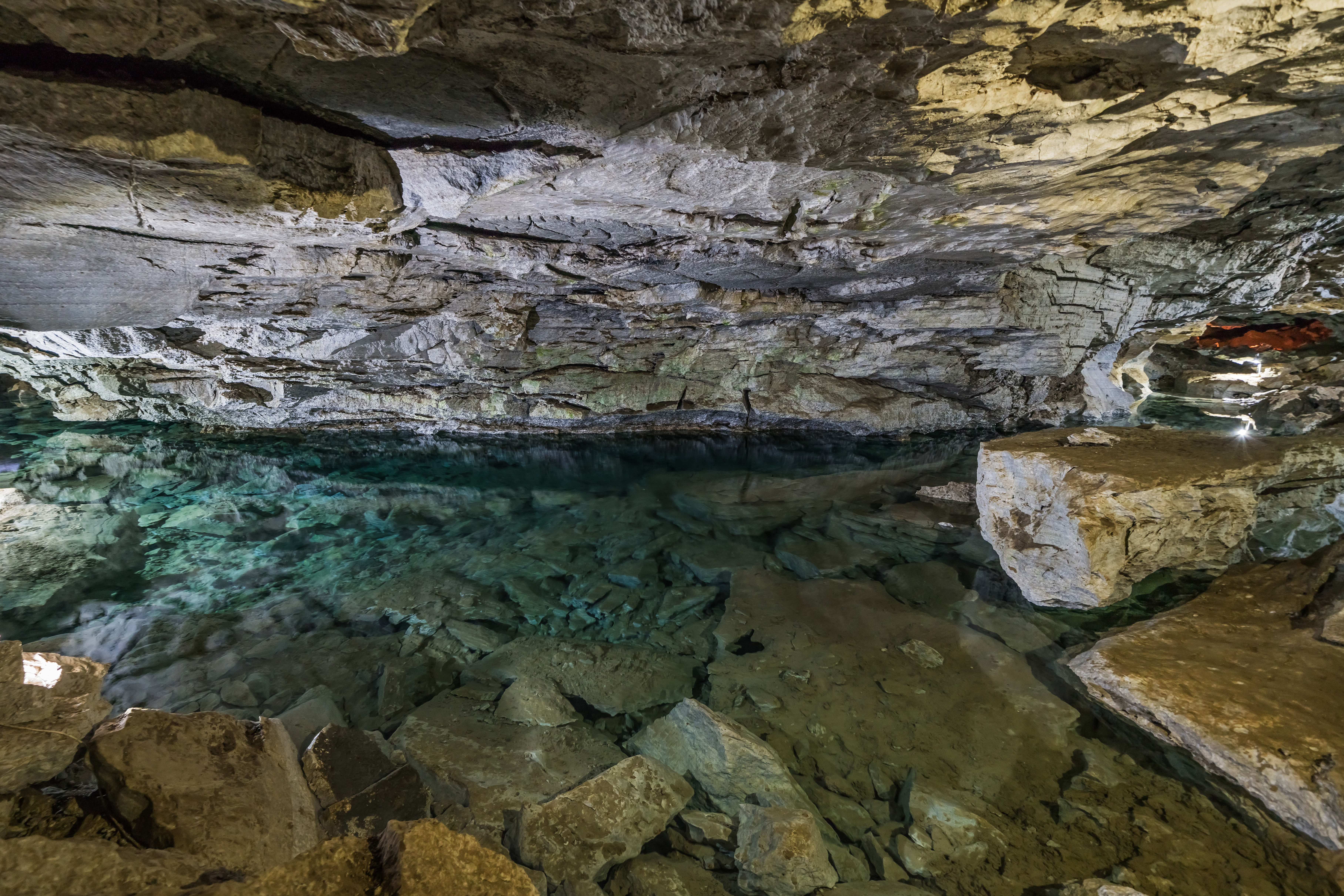 Long Grotto of the Ice Cave in Kungur, Perm Krai, Russia